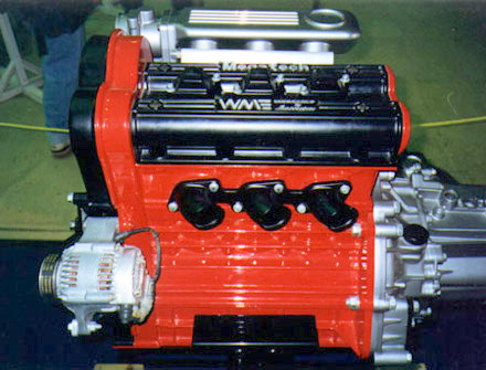 Megatech, project Formula One engine photographed at 2002 Jakarta Auto Expo